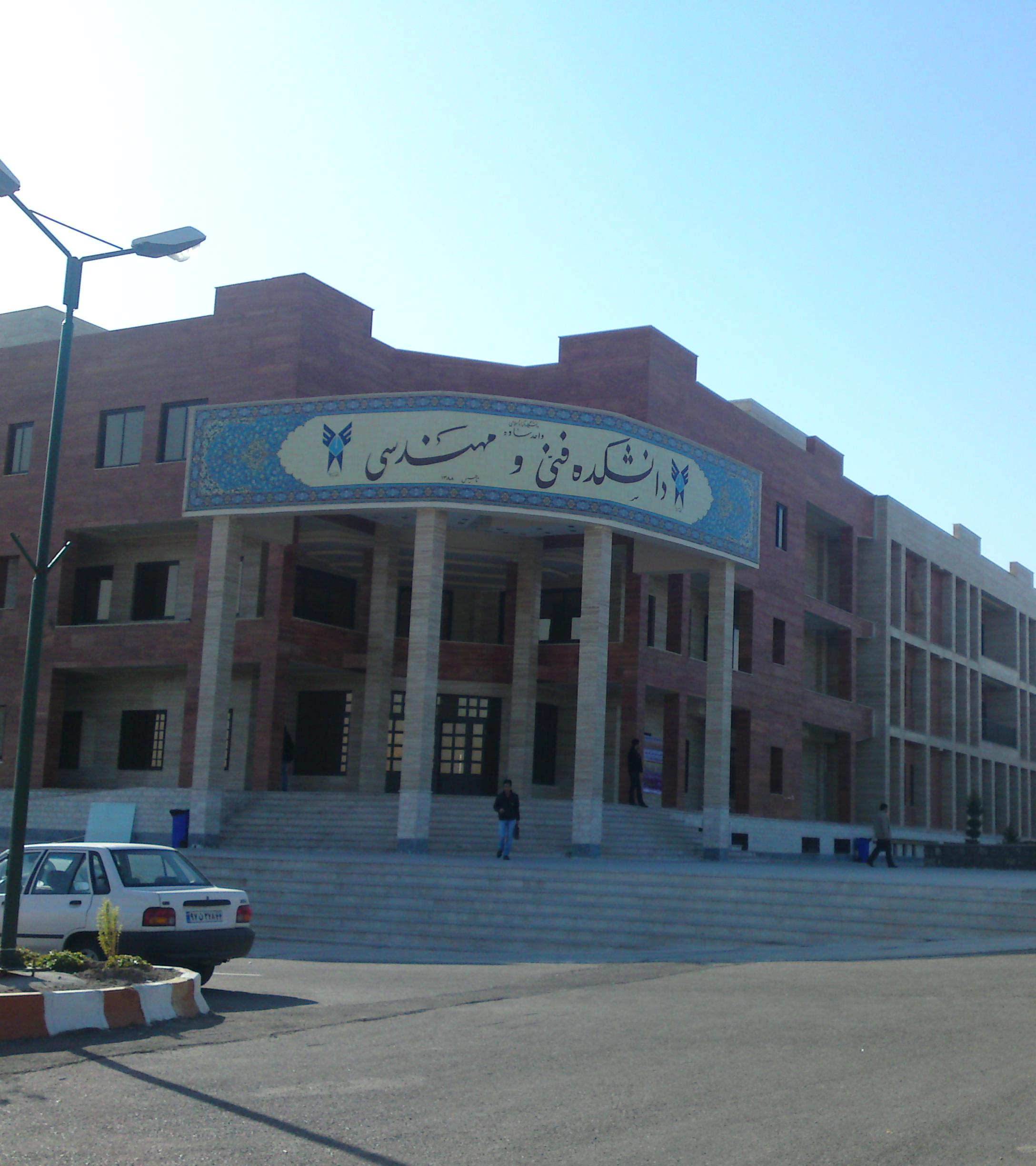 azad University saveh